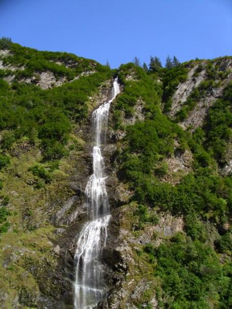 One of numerous waterfalls by this name, this one is in Keystone Canyon, outside of Valdez, Alaska, USA